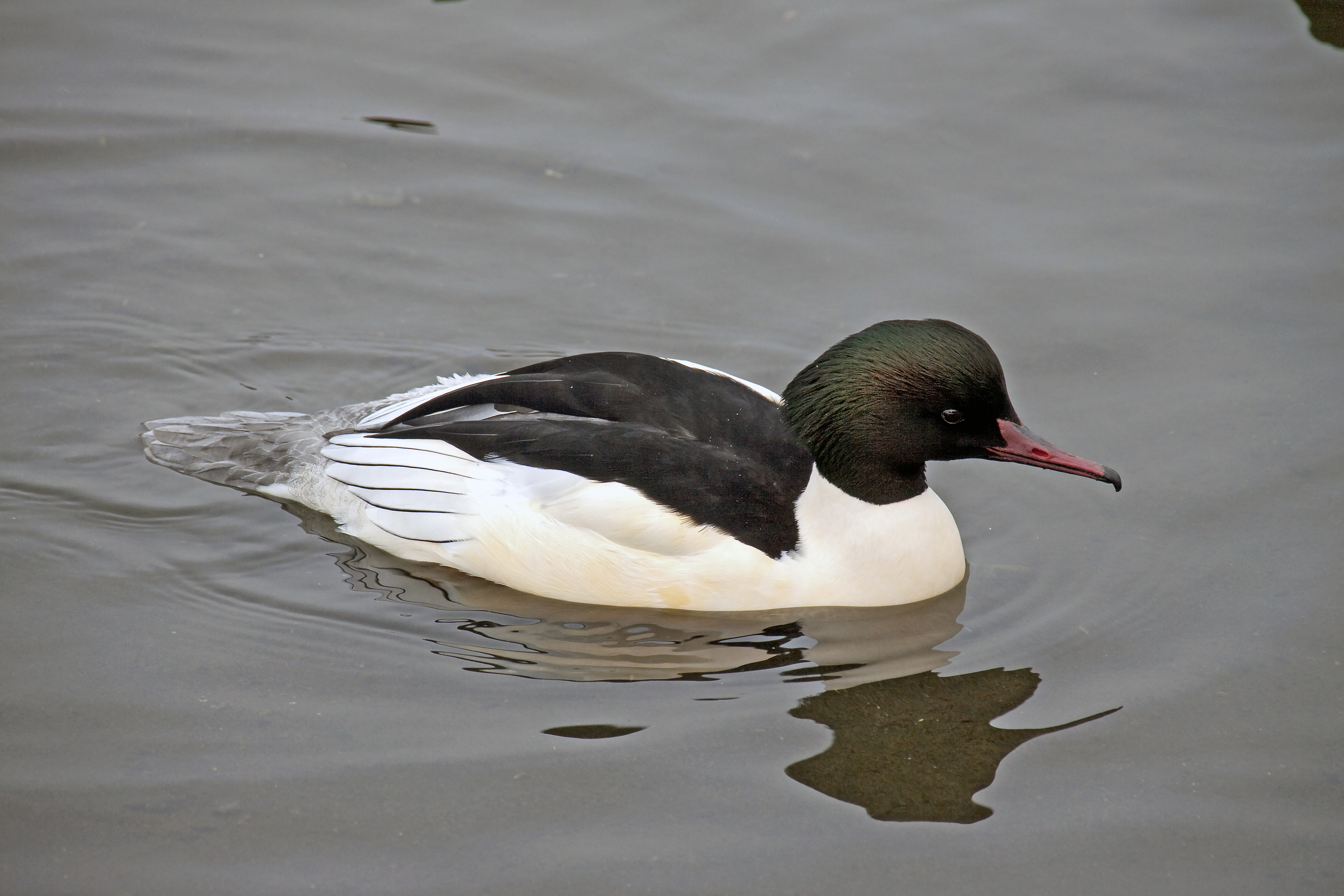 A male Common Merganser (also called Goosander in Europe) in Sandwell, West Midlands, England.